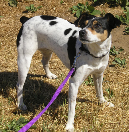 American Rat Terrier Nipper, AD, O-NAC (dog agility titles) a Rat Terrier owned by Vickey Meyer. Featured in a Dog Fancy magazine article. Taken by Elf